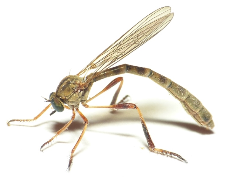 Leptogaster guttiventris, location: The Netherlands - Wageningen - Veluvia Hamelakkers